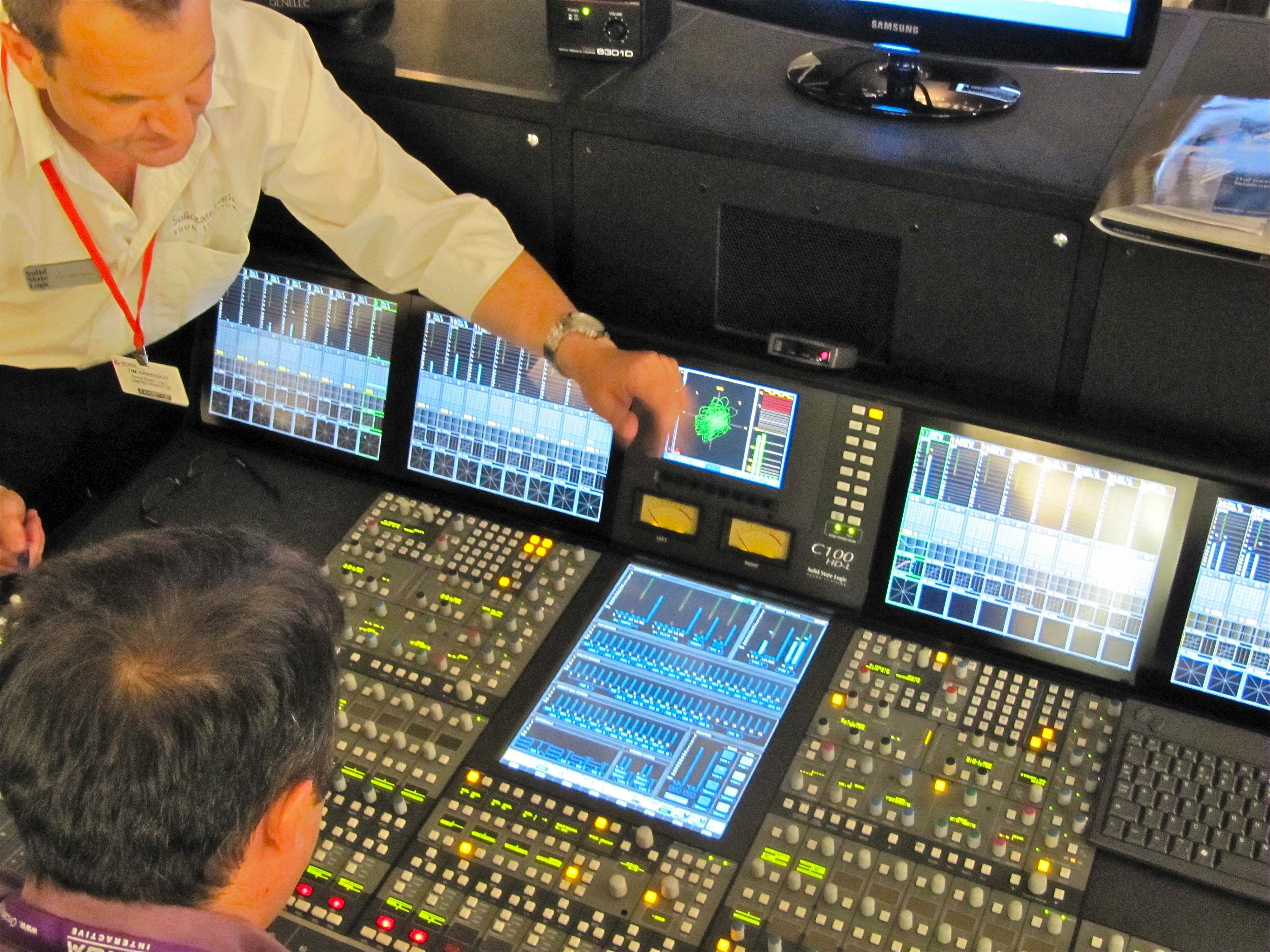 SSL booth at IBC2009 SSL C100 HD-L Digital Broadcast Console